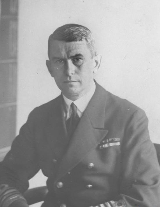 Captain Jerzy Włodzimierz Świrski